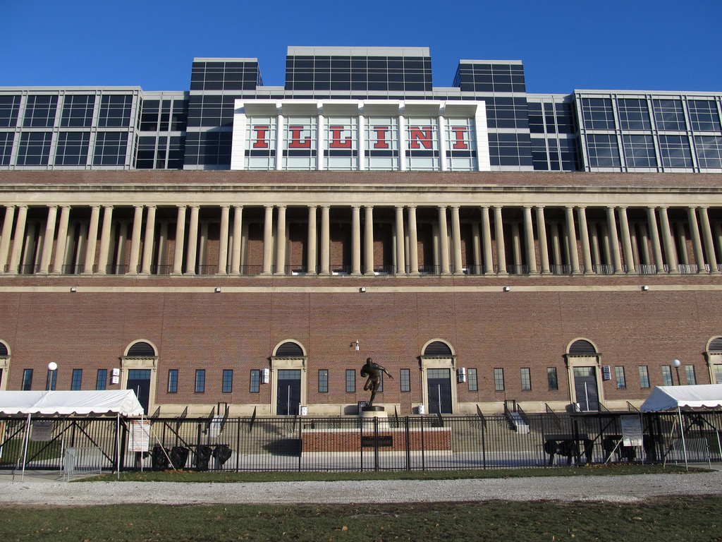 Memorial Stadium Champaign East Exterior 2013